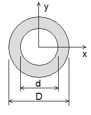 Section modulus of pipe section